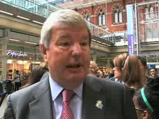 Keith Mills talks about the 2012 Summer Olympics in London. Screenshot taken from VOA News video.